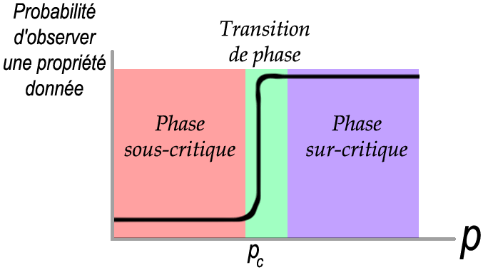 Phase transition (typical in random graphs)